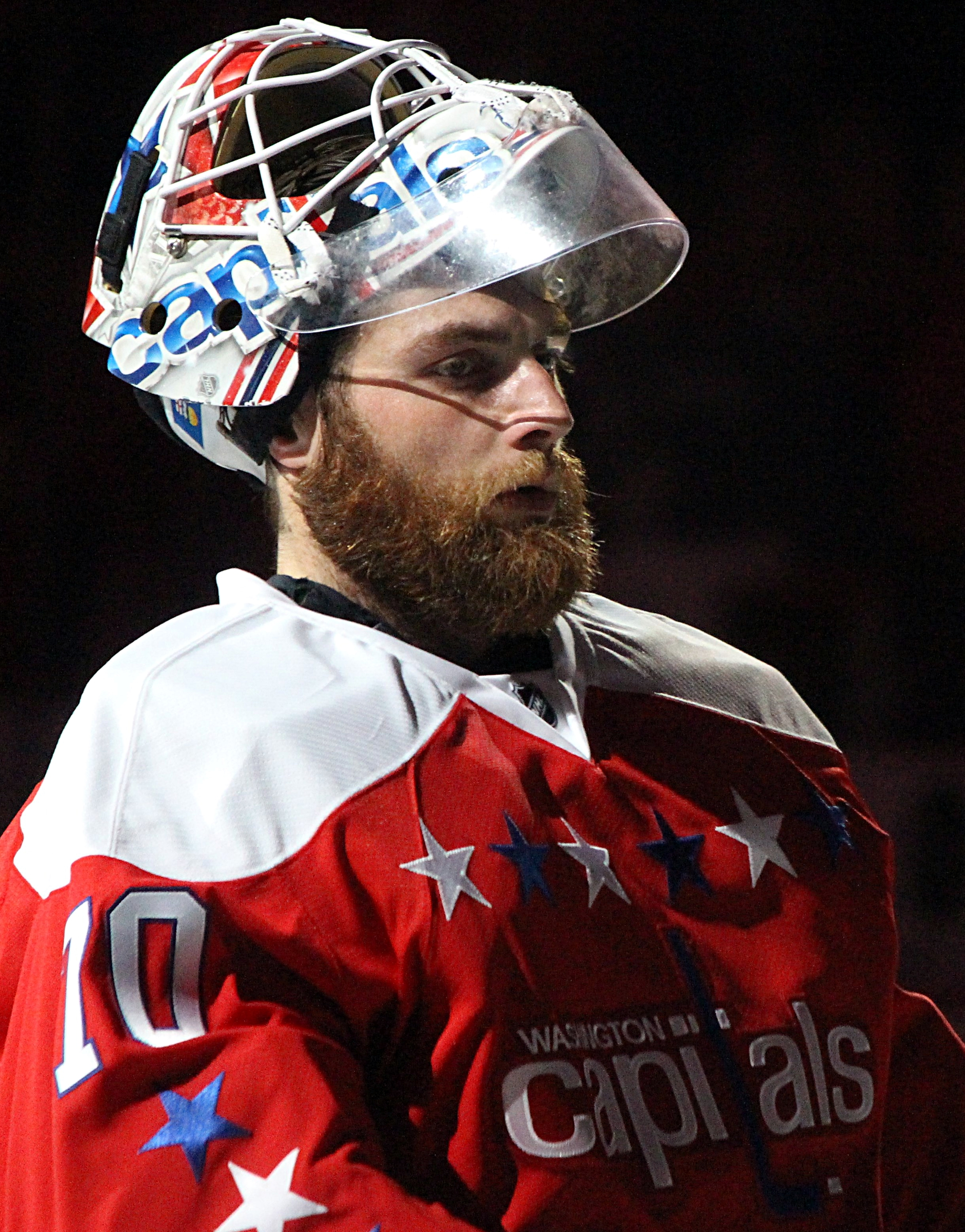 Washington Capitals goaltender Braden Holtby during a game against the Pittsburgh Penguins, Thursday, April 7, 2016 at Verizon Center in Washington, D.C.